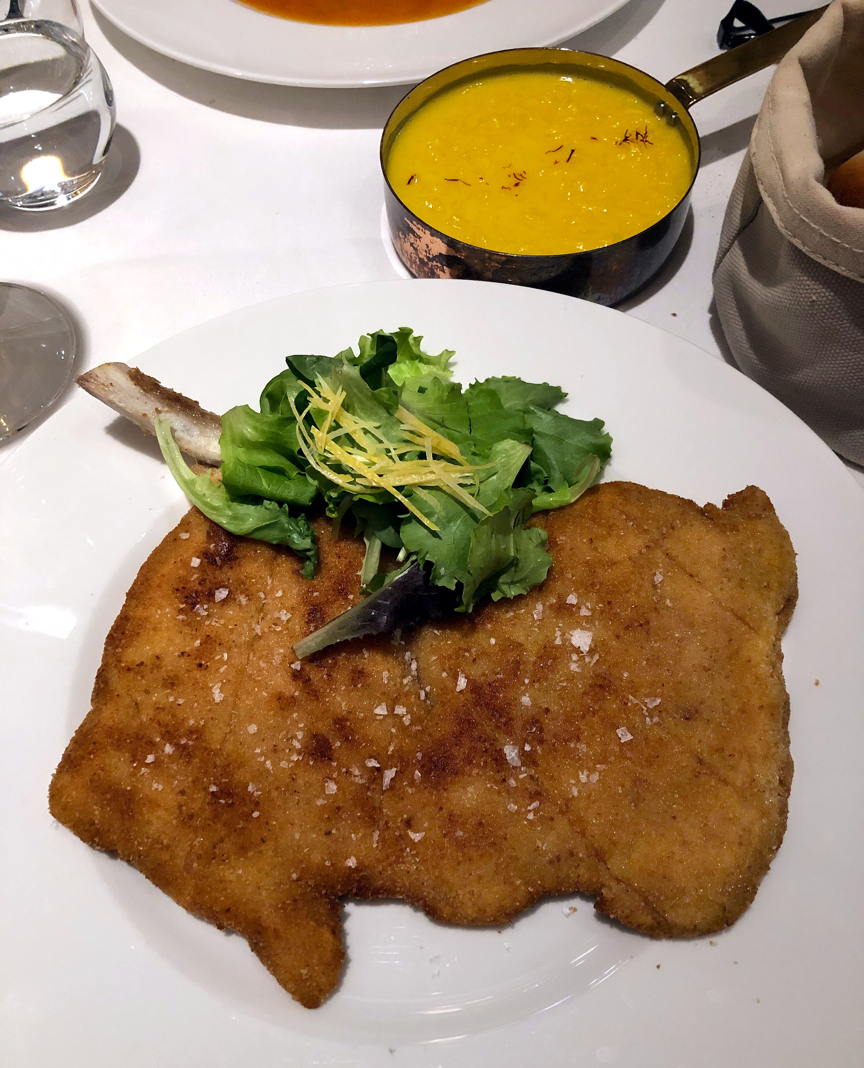 Cotoletta alla milanese in Milano.